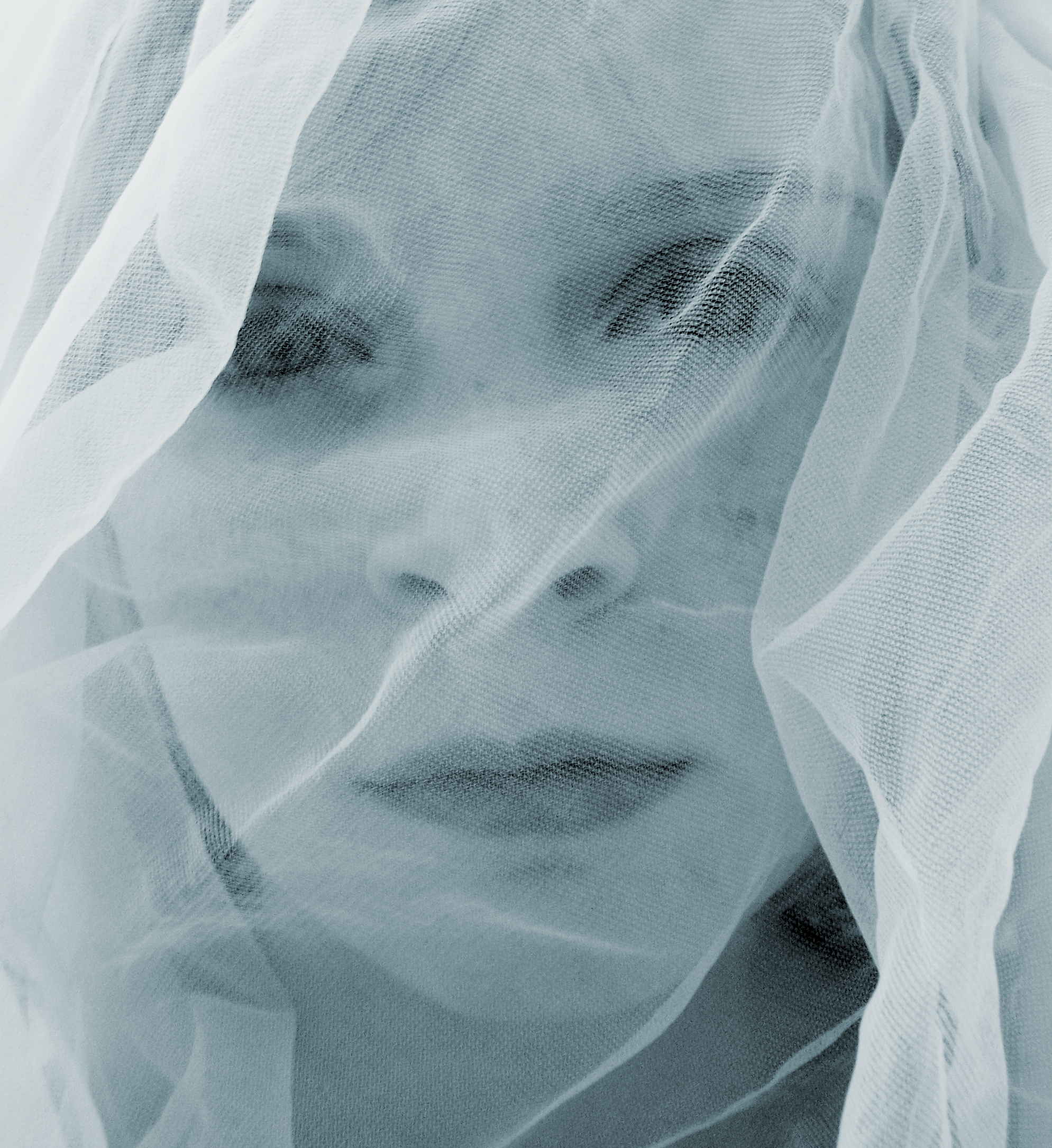 Arcadia Child My photos that have a creative commons license and are free for everyone to download, edit, alter and use as long as you give me, "D Sharon Pruitt" credit as the original owner of the photo. Have fun and enjoy!